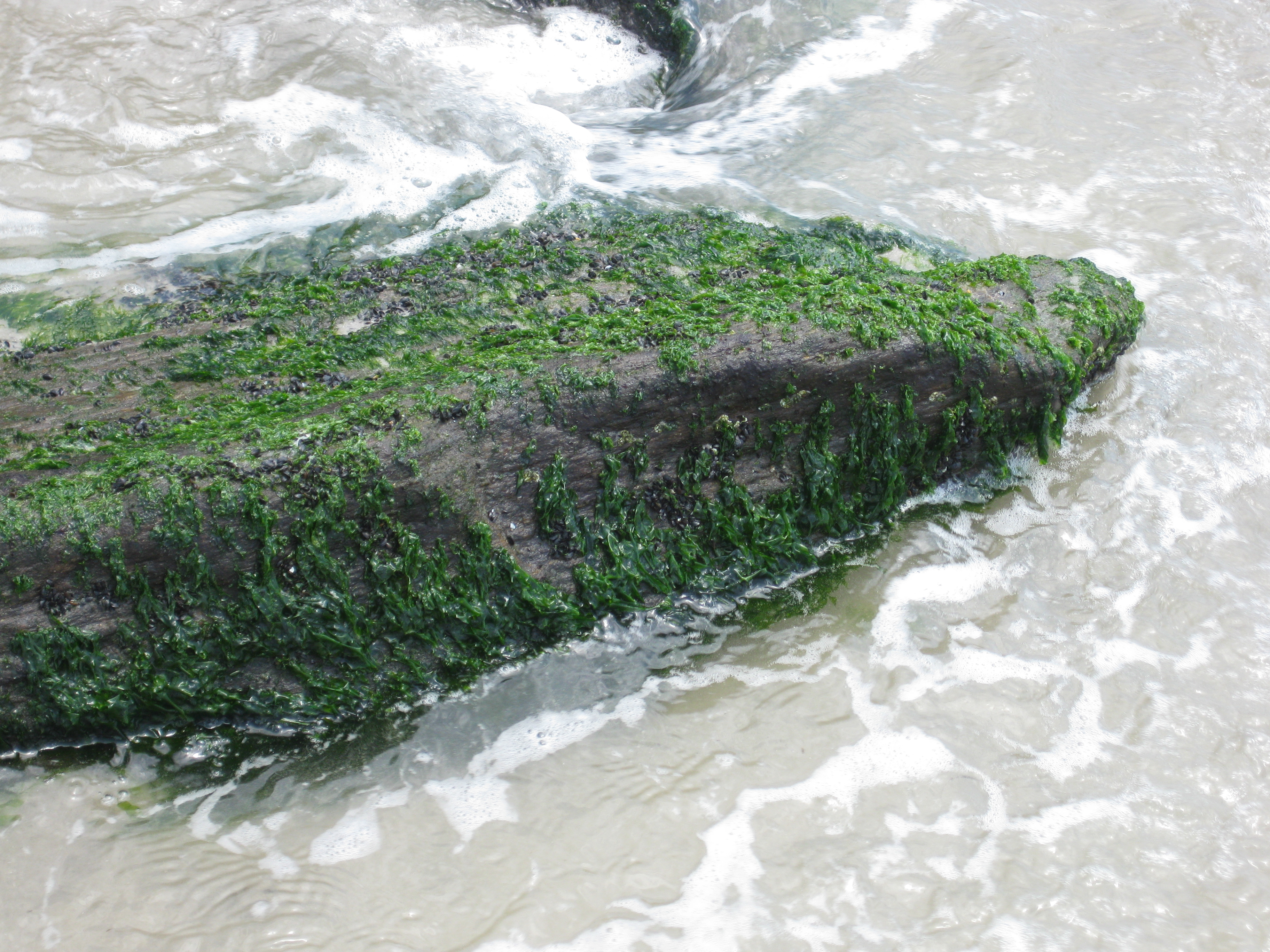 Seaweed growing on a rock jetty at Lido West park on Long Island, NY. The rocks are continually soaked with salt water from the waves and sea spray, but are never submerged for long.